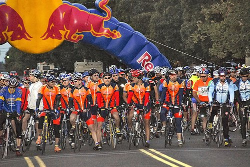 Starting line of the 2007 LOTOJA bicycle race. Email Michael VaughAn for print purchase information including size and pricing.